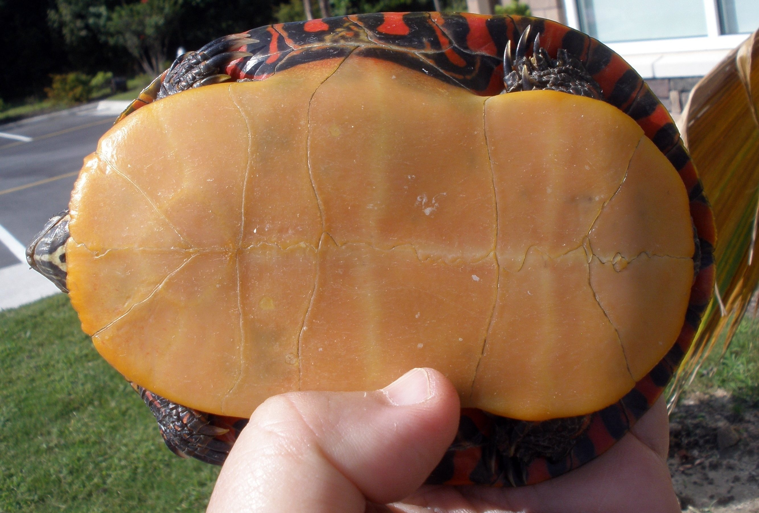 The plastron, bottom section, of the carapace (shell) on this turtle was nice and smooth - no scars or wear marks from rocks or anything. The color was nice and vibrant. Also, this view gives a good look at the markings on the scutes of the carapace-edges. Eastern painted turtle (for use in a gallery with common aspect ratios)